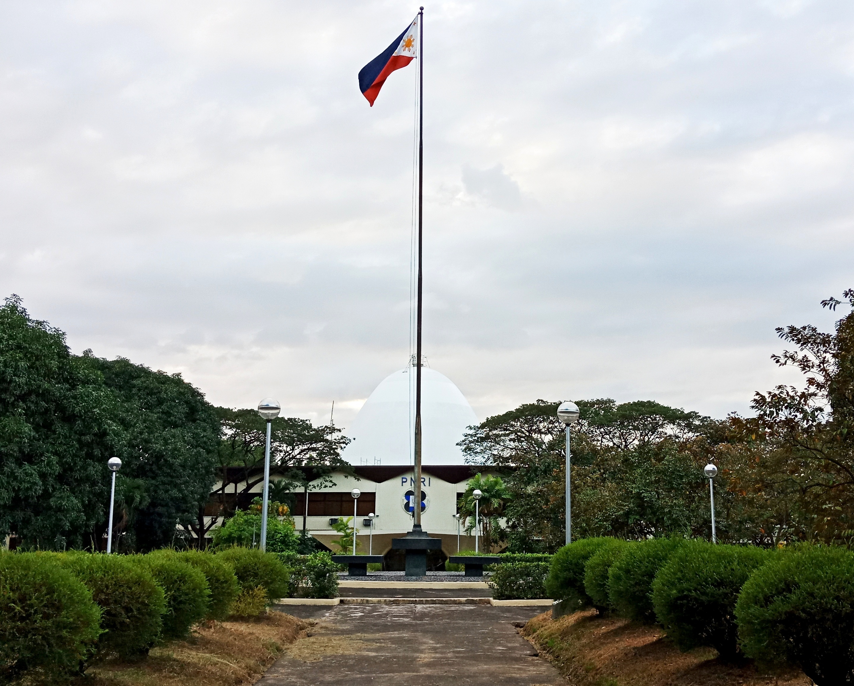 PRR-1 Dome 2019